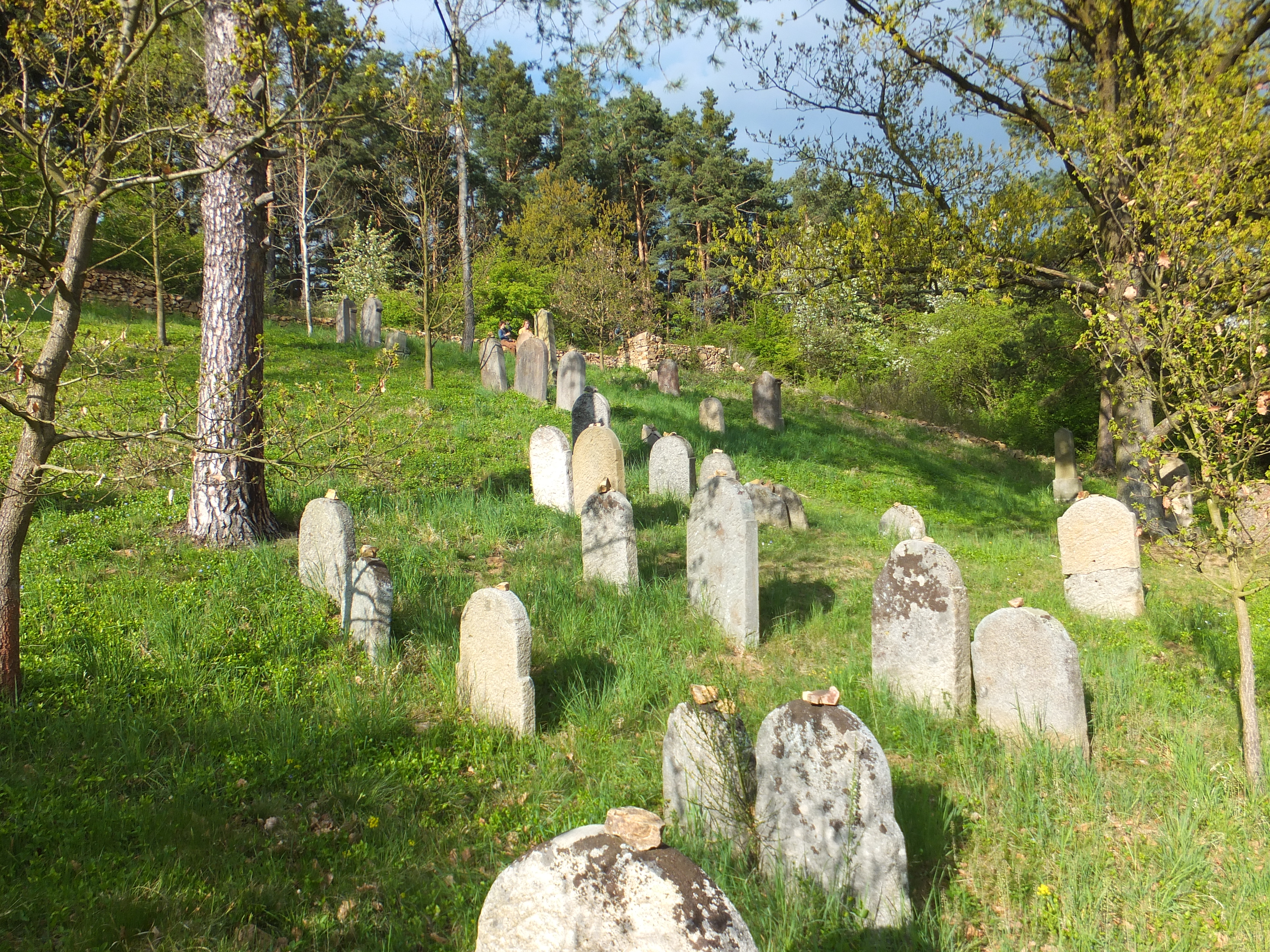 The Jewish cemetery in Čelina